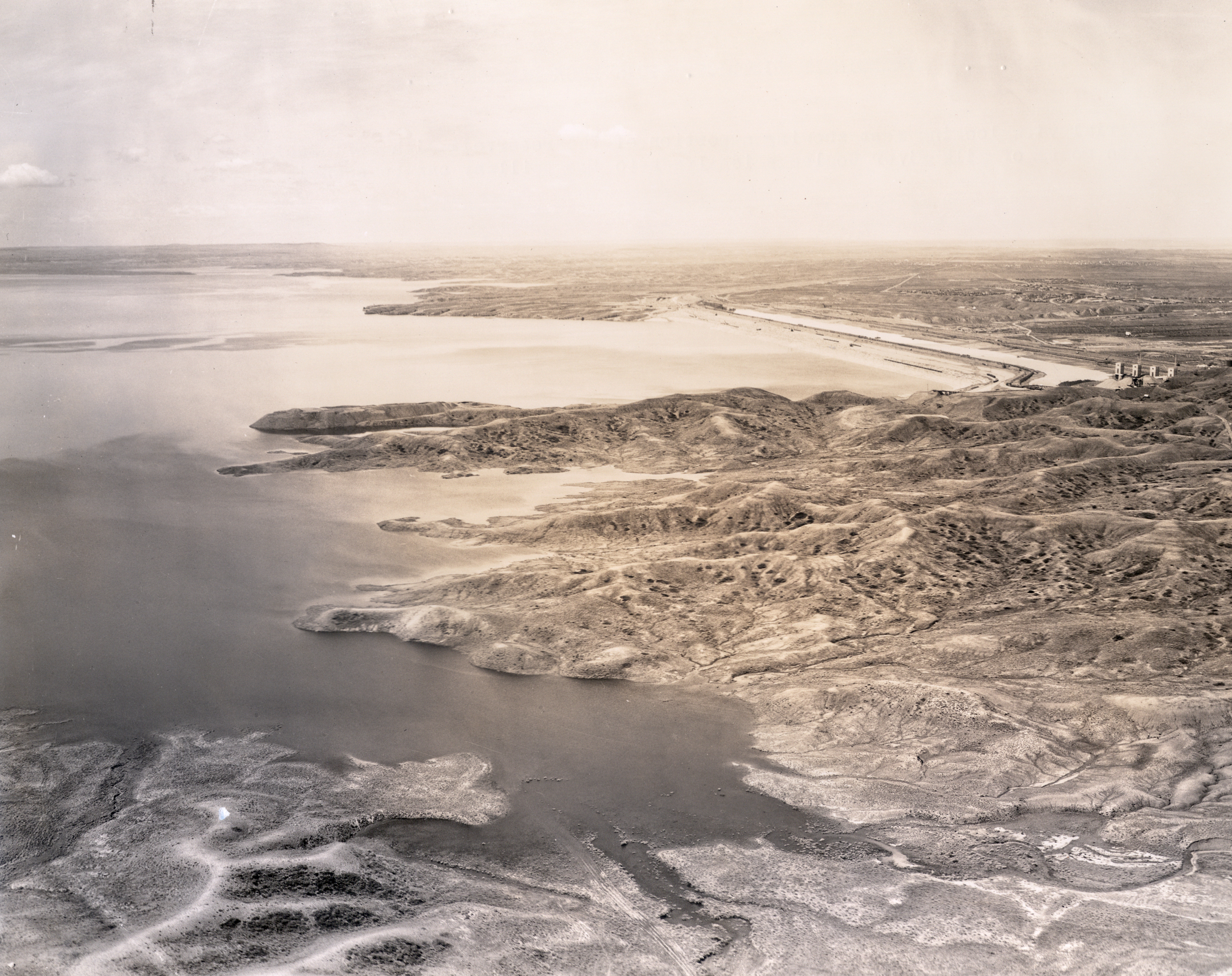 An aerial view of Fort Peck Dam looking westward with Milk Coulee Bay in the foreground. Just out of view to the right would be the intake for the spillway. Northeast Montana.